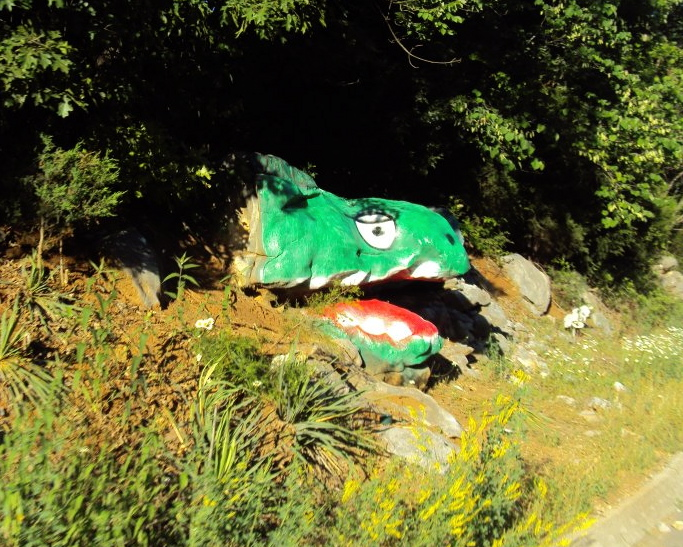 Mascot's Turtle Rock post renovation